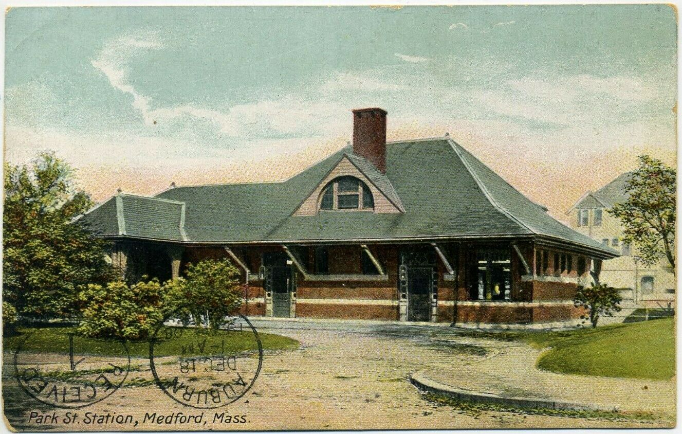 Early divided back postcard of Park Street station, postmarked 1908